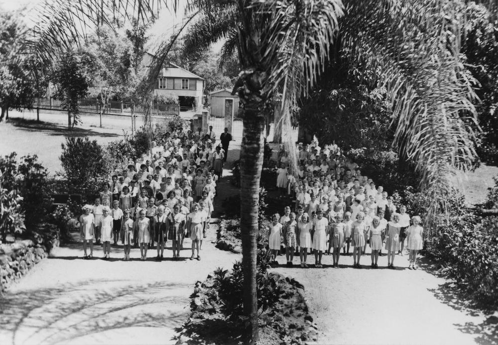 Tully State School, ca. 1952. Students paraded in the front grounds of the Tully State School, around 1952.